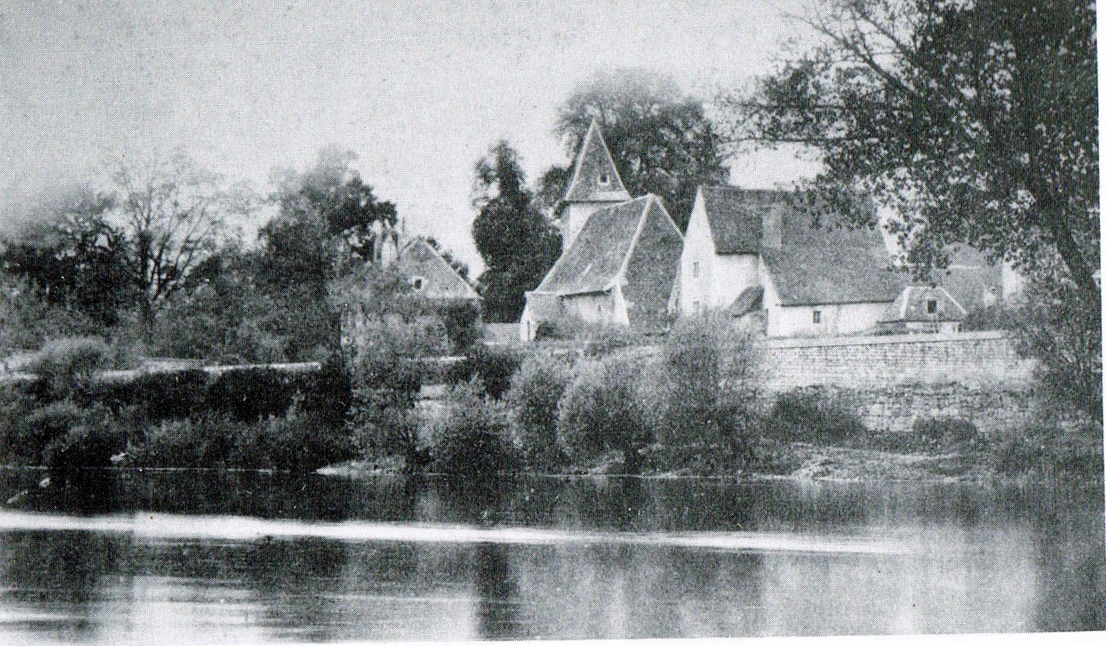 The area of Velotte, in the beginning of XXe century. The area is located in Besançon (Doubs, France).